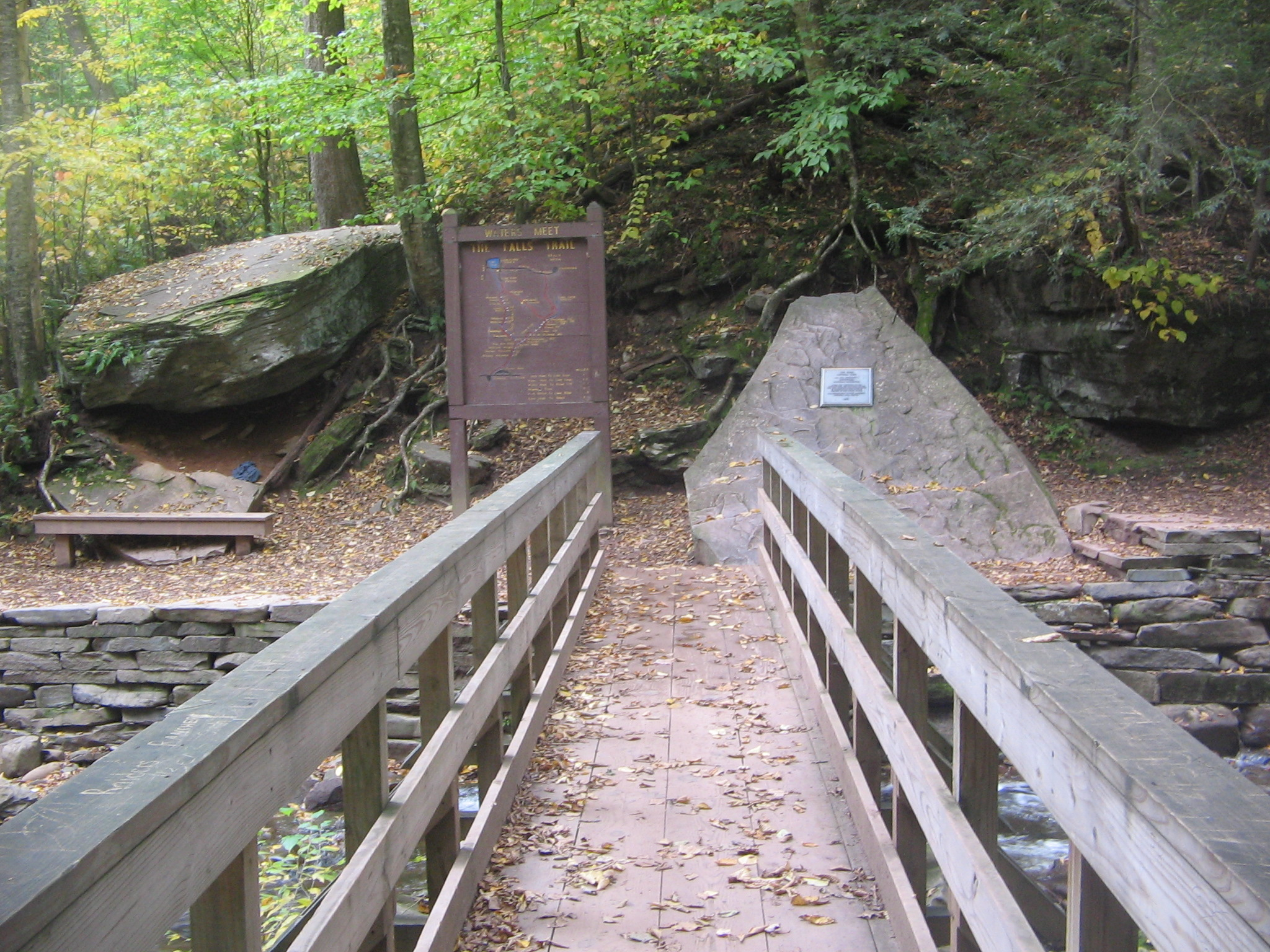 Footbridge at Waters Meet over Kitchen Creek on Waterfalls Trail in Ricketts Glen State Park, Luzerne County, Pennsylvania, USA. Bridge from Glen Leigh to Waters Meet - trail map at left, National Natural Landmark marker on rock at right.